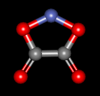 Model of cobalt(II) oxalate.